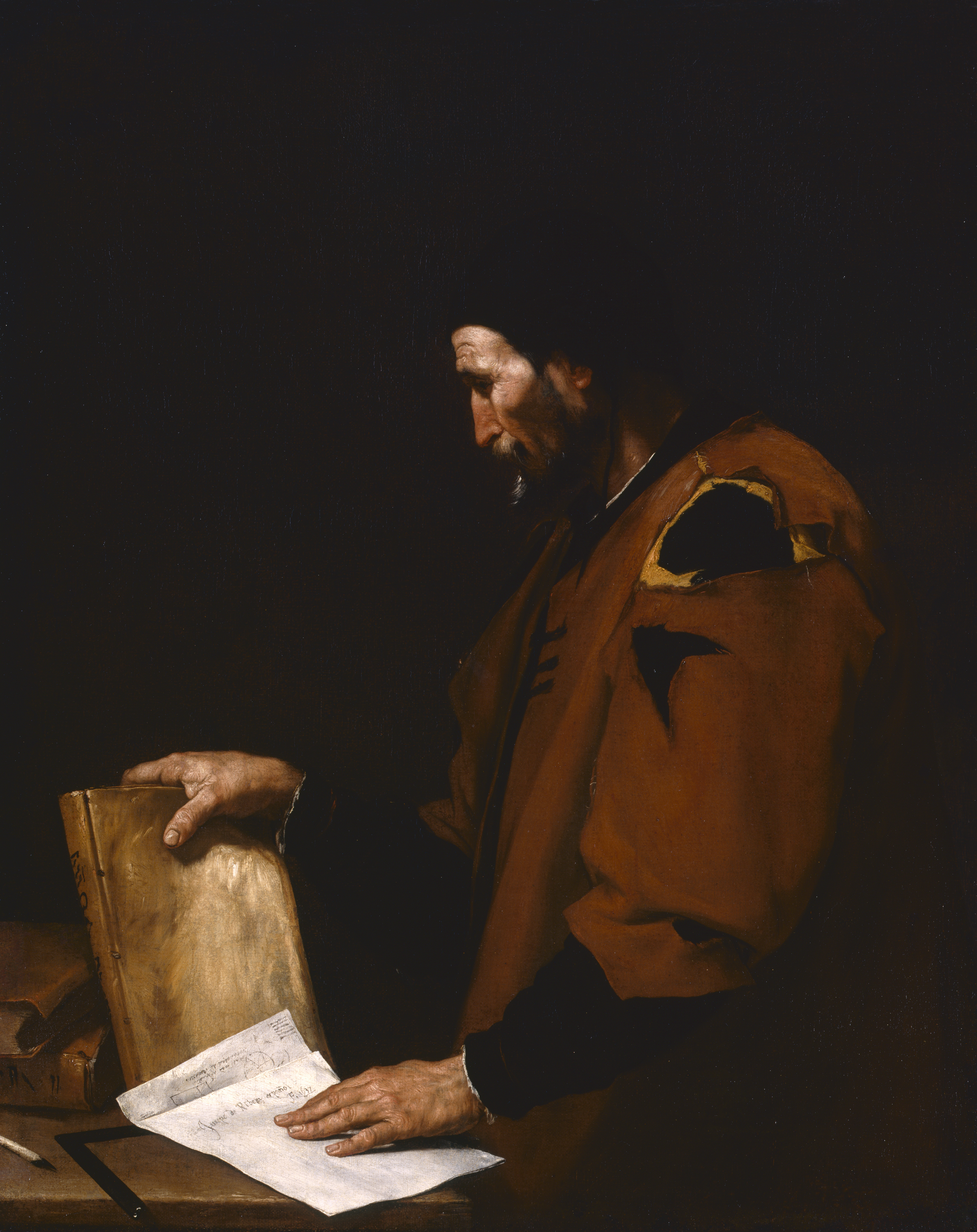 17th century Spanish painting of Aristotle as beggar philosopher